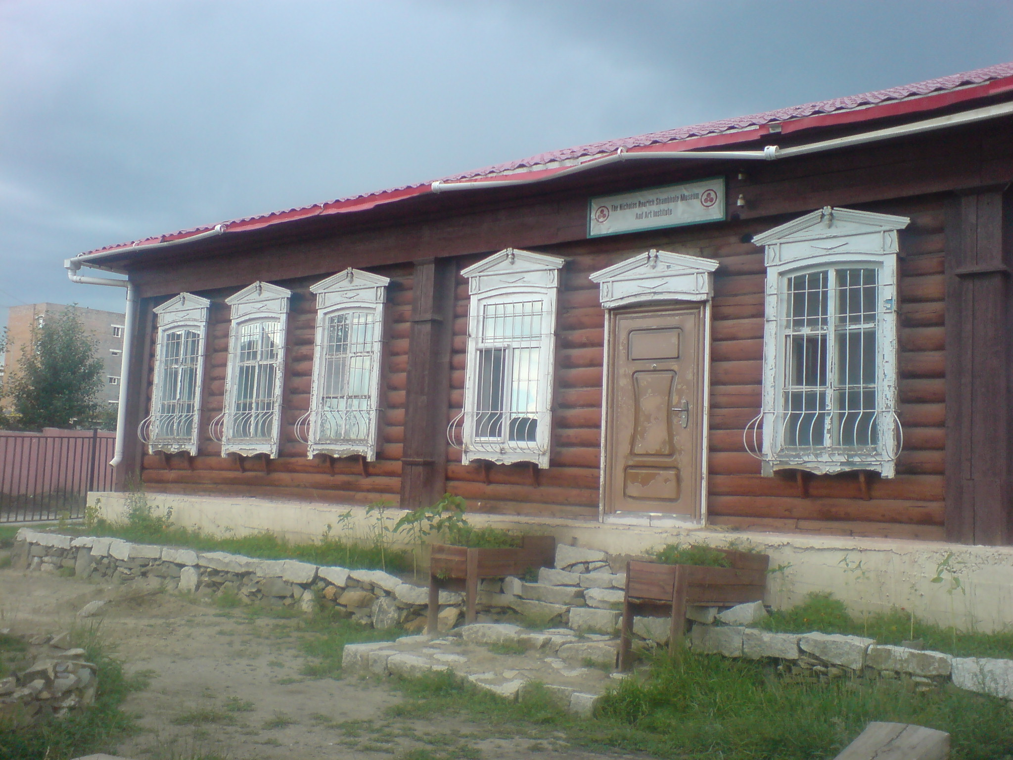 Nicholas Roerich Home Museum in Ulan Bator, Mongolia Монгол: Николай Рерихийн гэр музей, Улаанбаатар